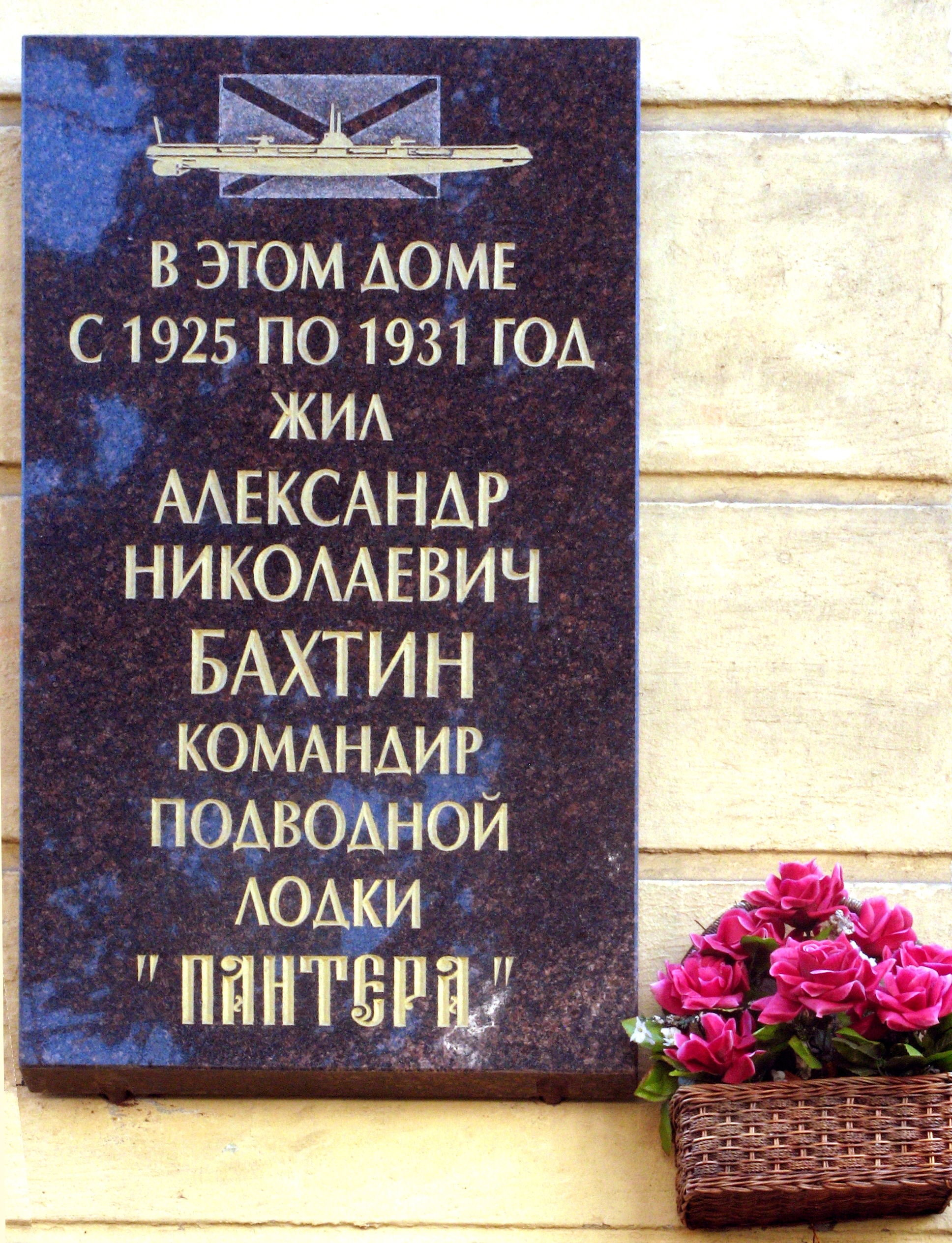 Marble plaques. Building 25, 11-line, Vasilievsky Island, Saint-Petersburg, Russia. The title on the memorial plaque: "In this building from 1925 till 1931 lived Alexander Nikolaevich Bahtin captain of submarine "Pantera" (Panther)"